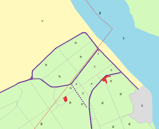 The Hedwigepolder: in a bilateral treaty between the Netherlands and Belgium an agreement was made to deepen the river Schelde, to facilitate ships' access to the port of Antwerp. In order to compensate for the loss of nature, it was decided to flood the (Dutch) Hedwigepolder and create a new nature reserve there. In 2009 the Dutch government reversed the decision and searched for other ways to compensate the deepening of the Schelde. The Belgian government wants to adhere to the original decision, as it believes it is a better solution than the alternatives. In 2012, the Dutch government also chose for this option.